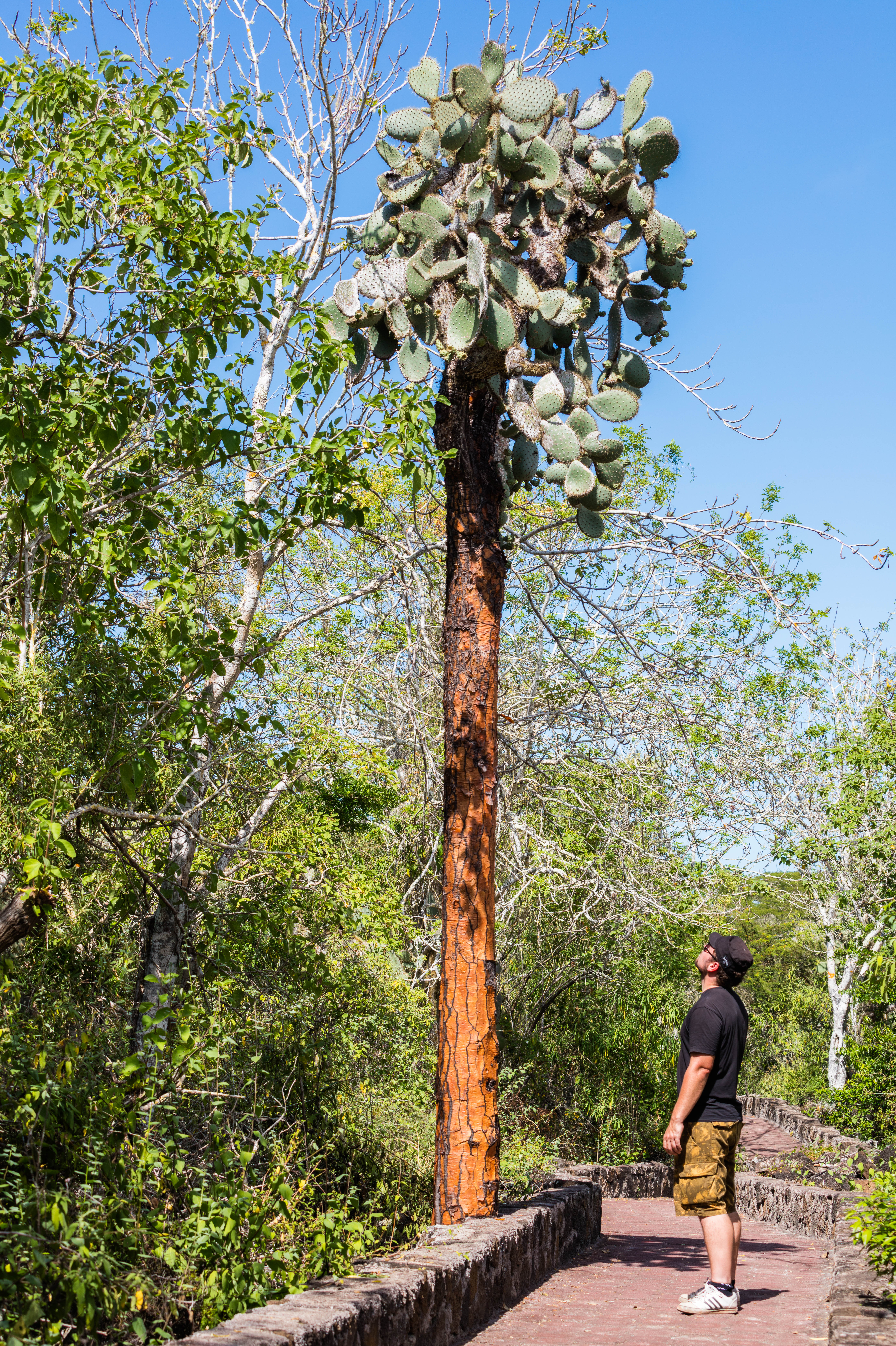 Opuntia echios, Santa Cruz Island, Galapagos Islands, Ecuador